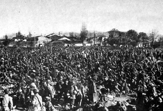 Italian pisoners of war